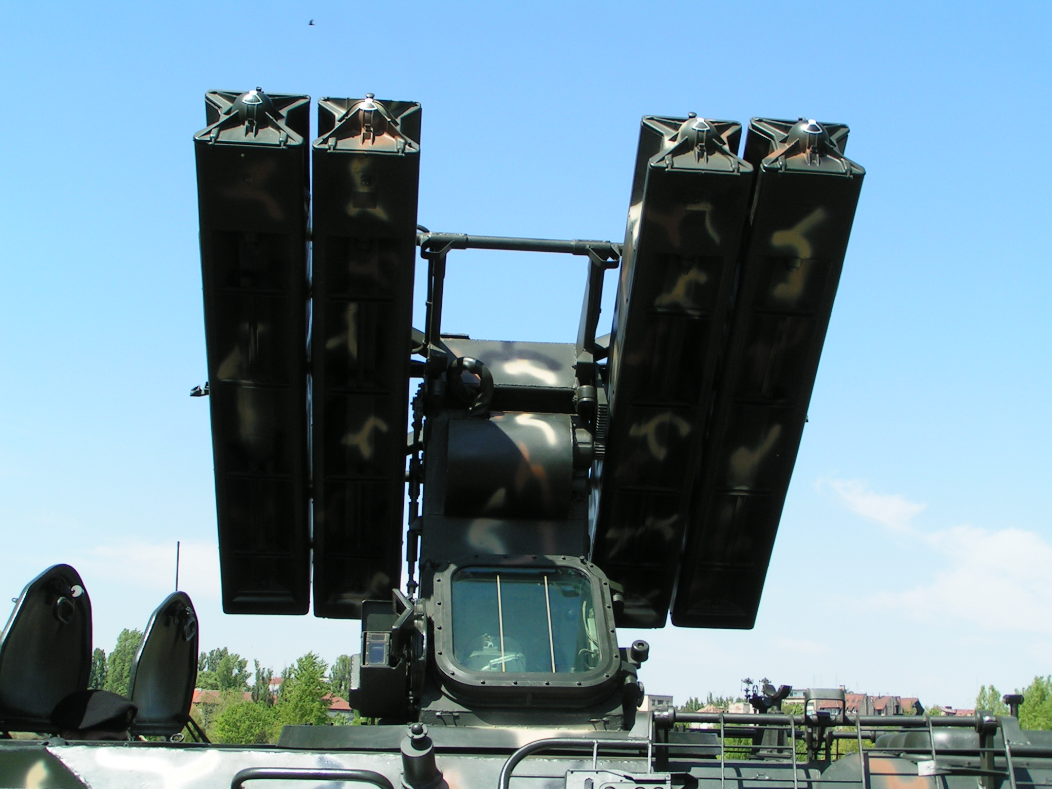 CA-95M1 at Romanian Land Forces Day, 23.04.2007 - The AA Rockets